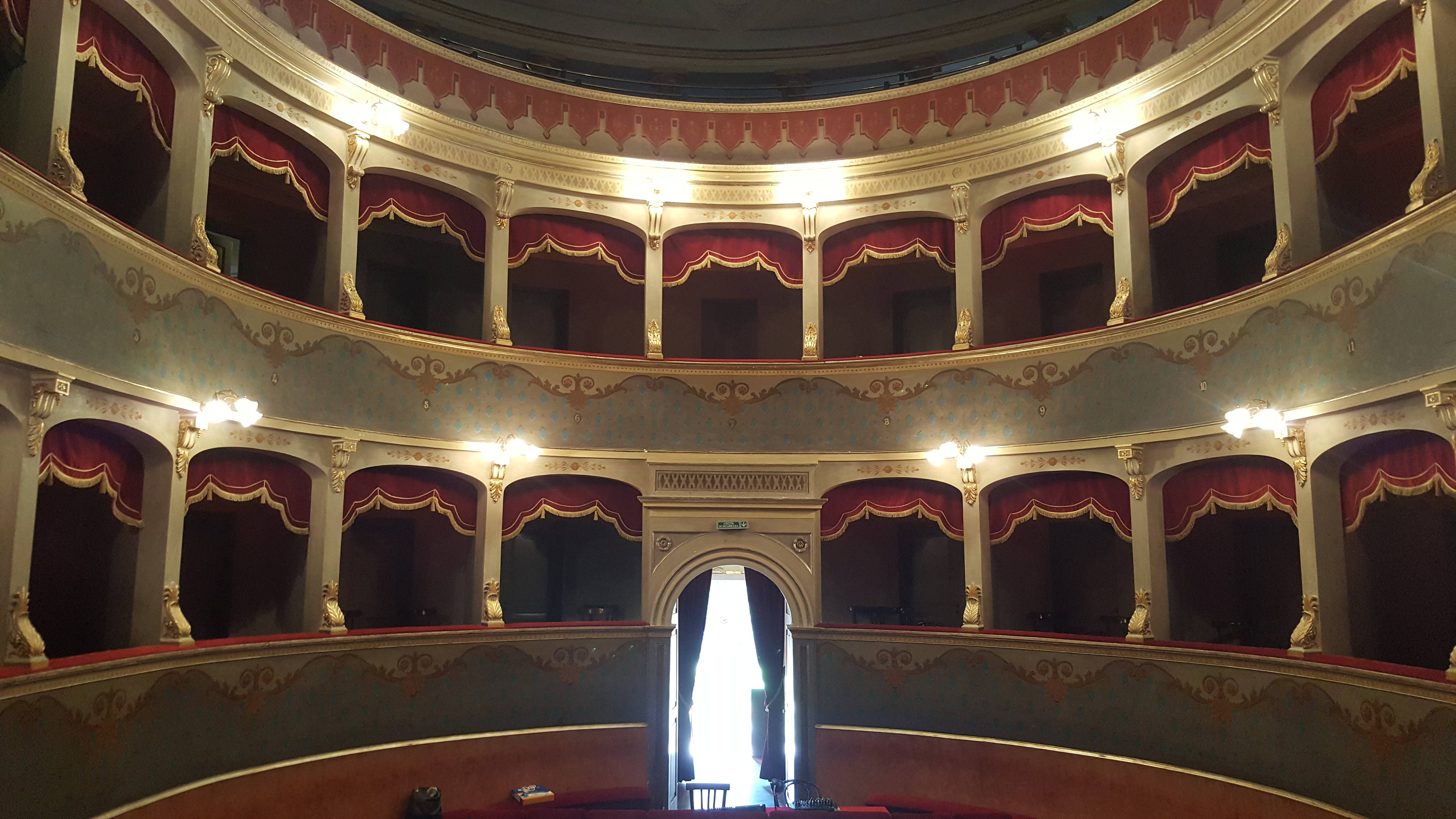 This is a photo of a monument which is part of cultural heritage of Italy.